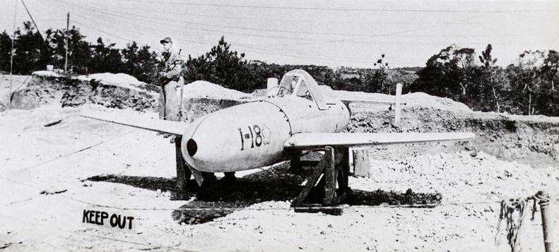 MXY7 Model 11 Manufacture Number 1049 Number I-18 captured April 1, 1945 at Yontan airfield, Okinawa.